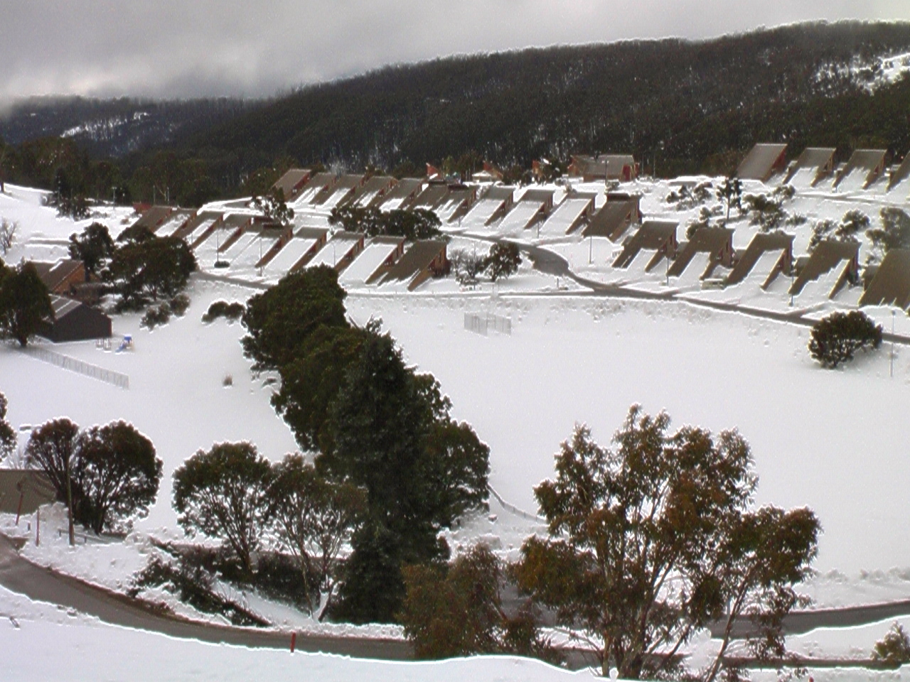 Cabramurra, New South Wales. The "Highest Town in Australia". July 2011.